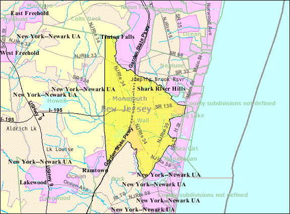 Census Bureau map of Wall Township